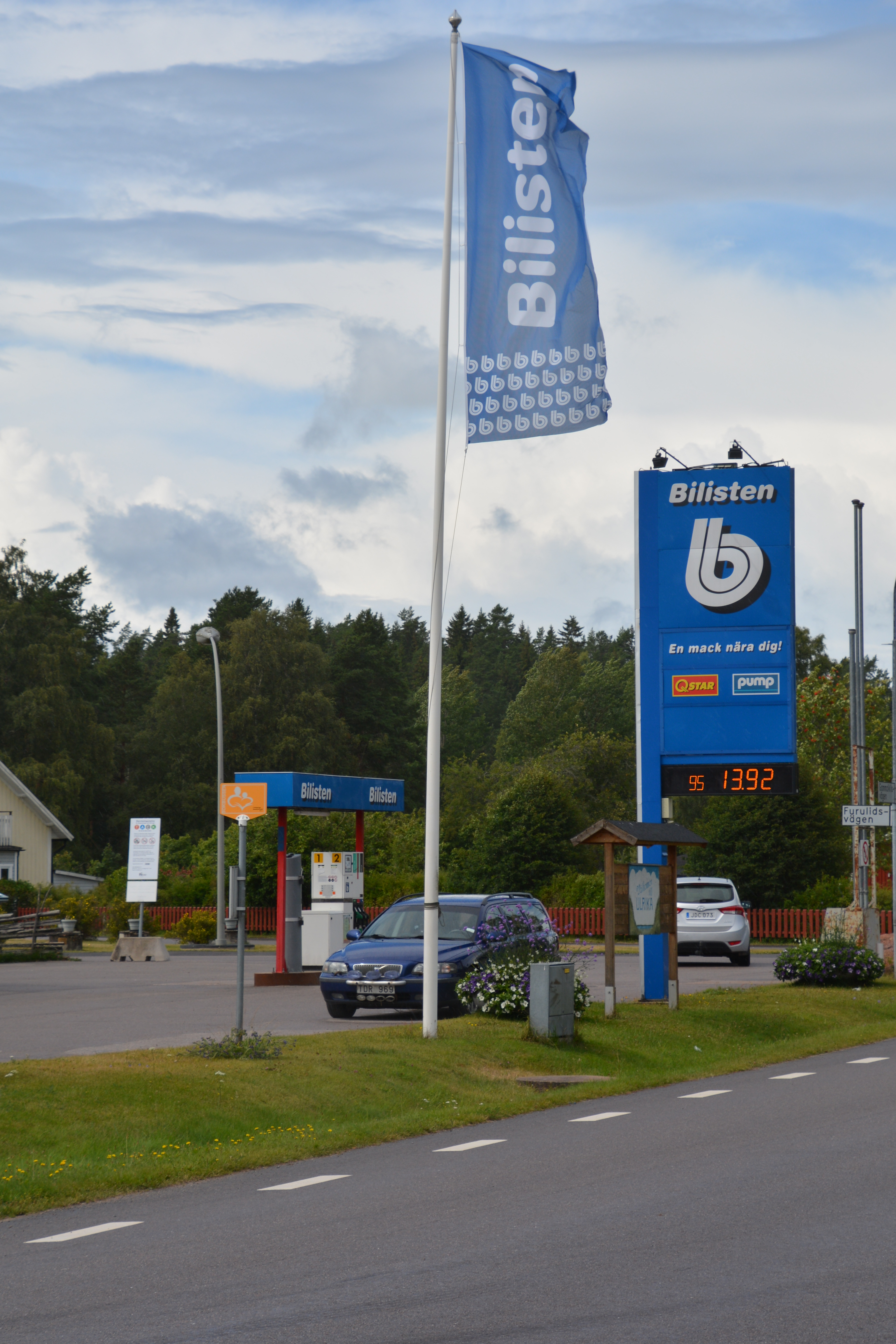 Bensinstation Bilisten, Ulrika